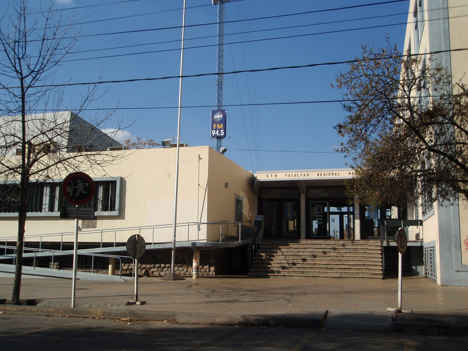 UTN FRM Front Entrance